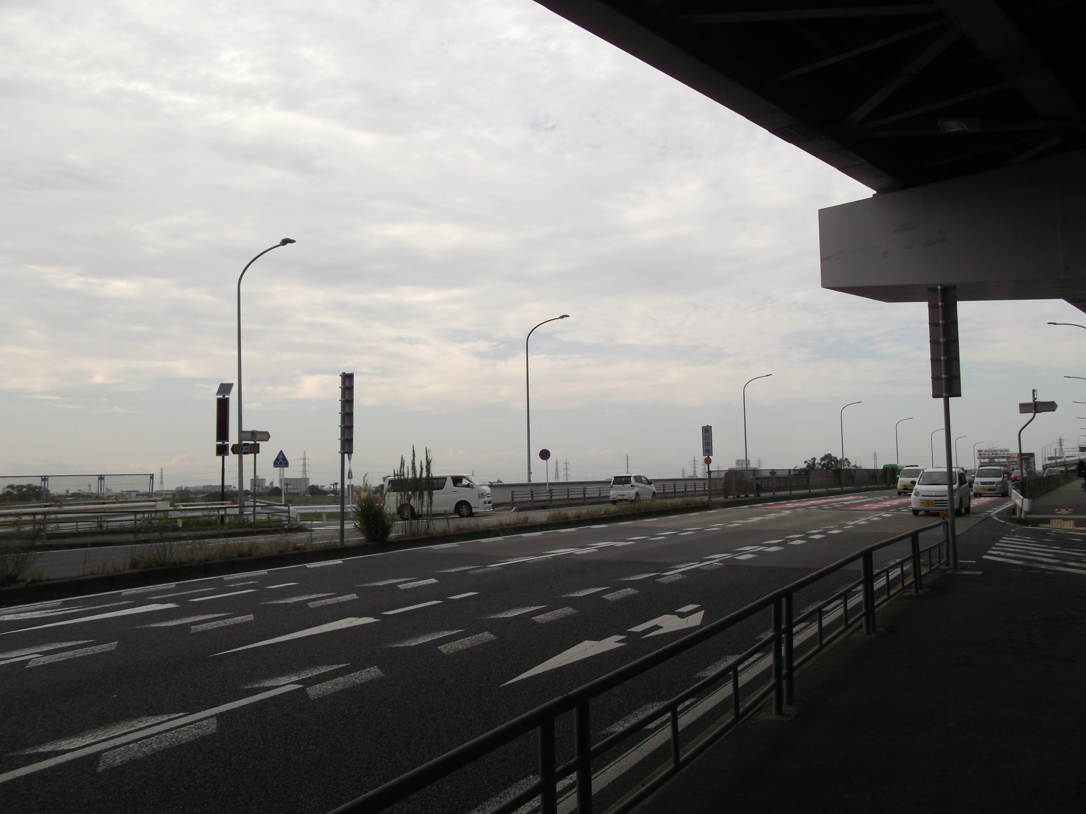 The Shin-Kawanaka Bridge Intersection on the National Route 41 and the Aichi Prefectural Road Route 202 in Kita-ku, Nagoya City